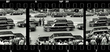 Hans Martin Sewcz Gorbatschow in Ost-Berlin 1987 s/w-Print, PE auf Aludibond, UV-Schutzfolie 1 x 2,03 m